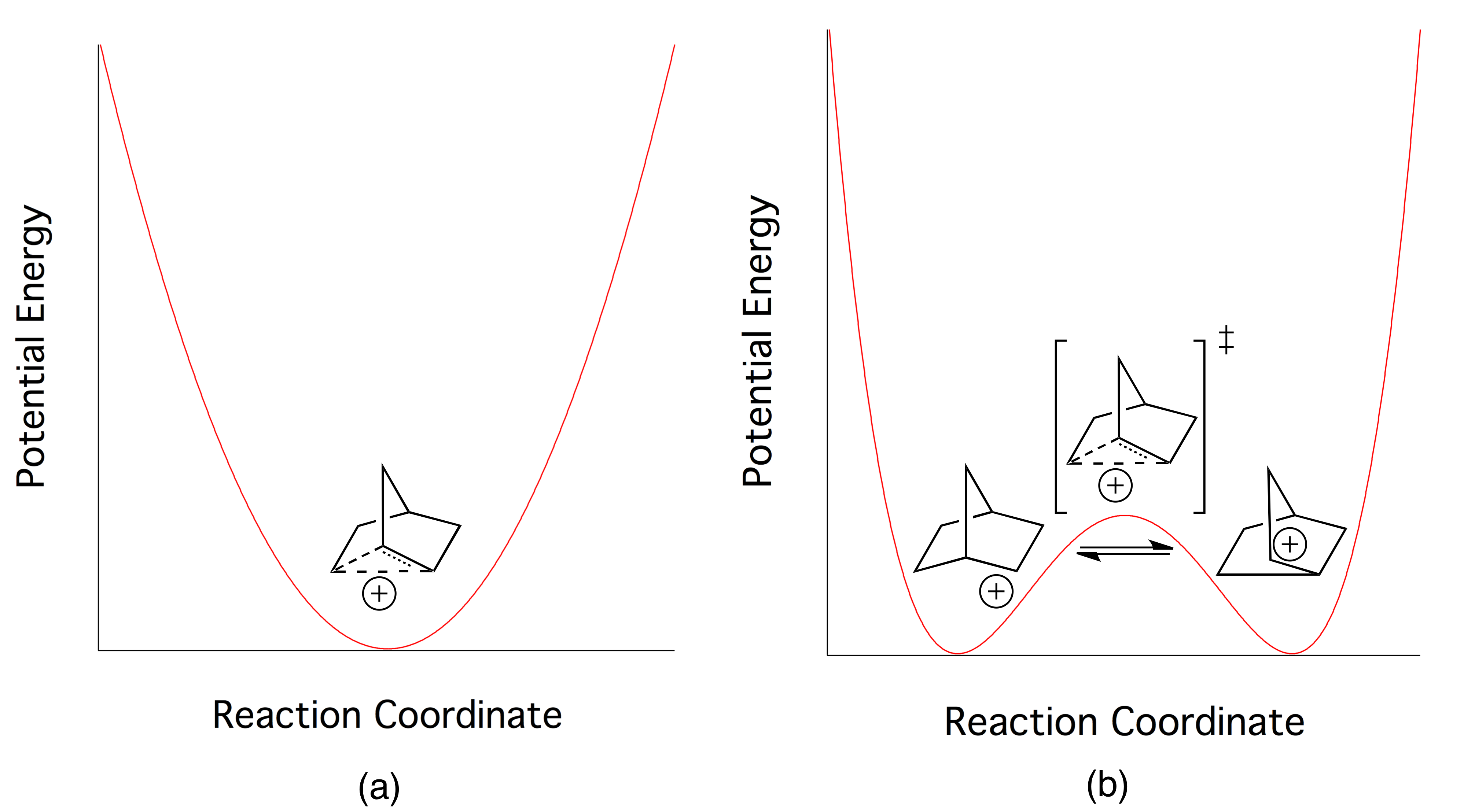 Classical and Non-classical depiction of the potential energy curve for the 2-norbornyl cation